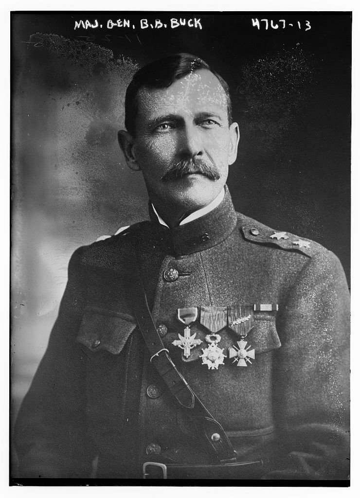 Beaumont Bonaparte Buck in 1918